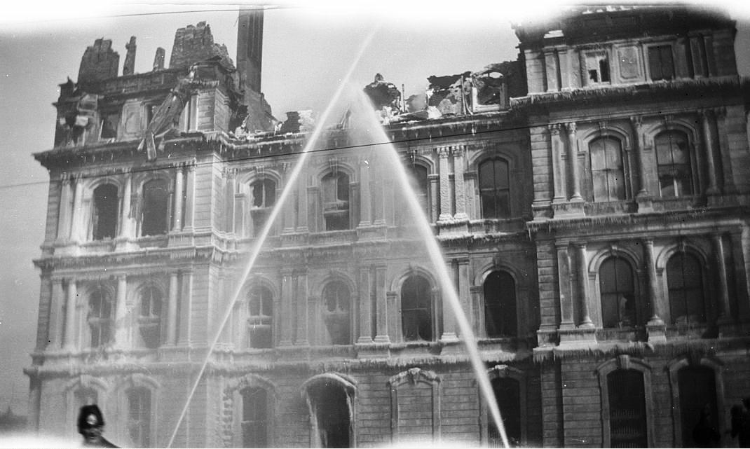 Montreal City Hall fire of March 3rd - 4th, 1922